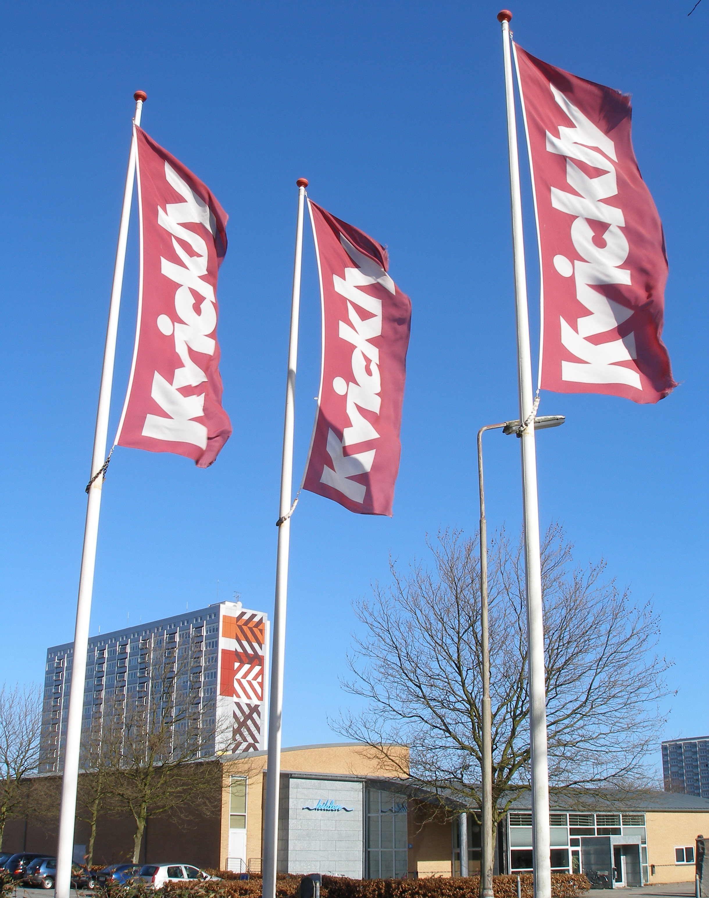 Flags of Danish supermarket Kvickly